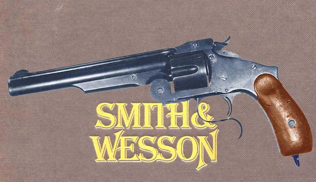 S&W Russian No 3